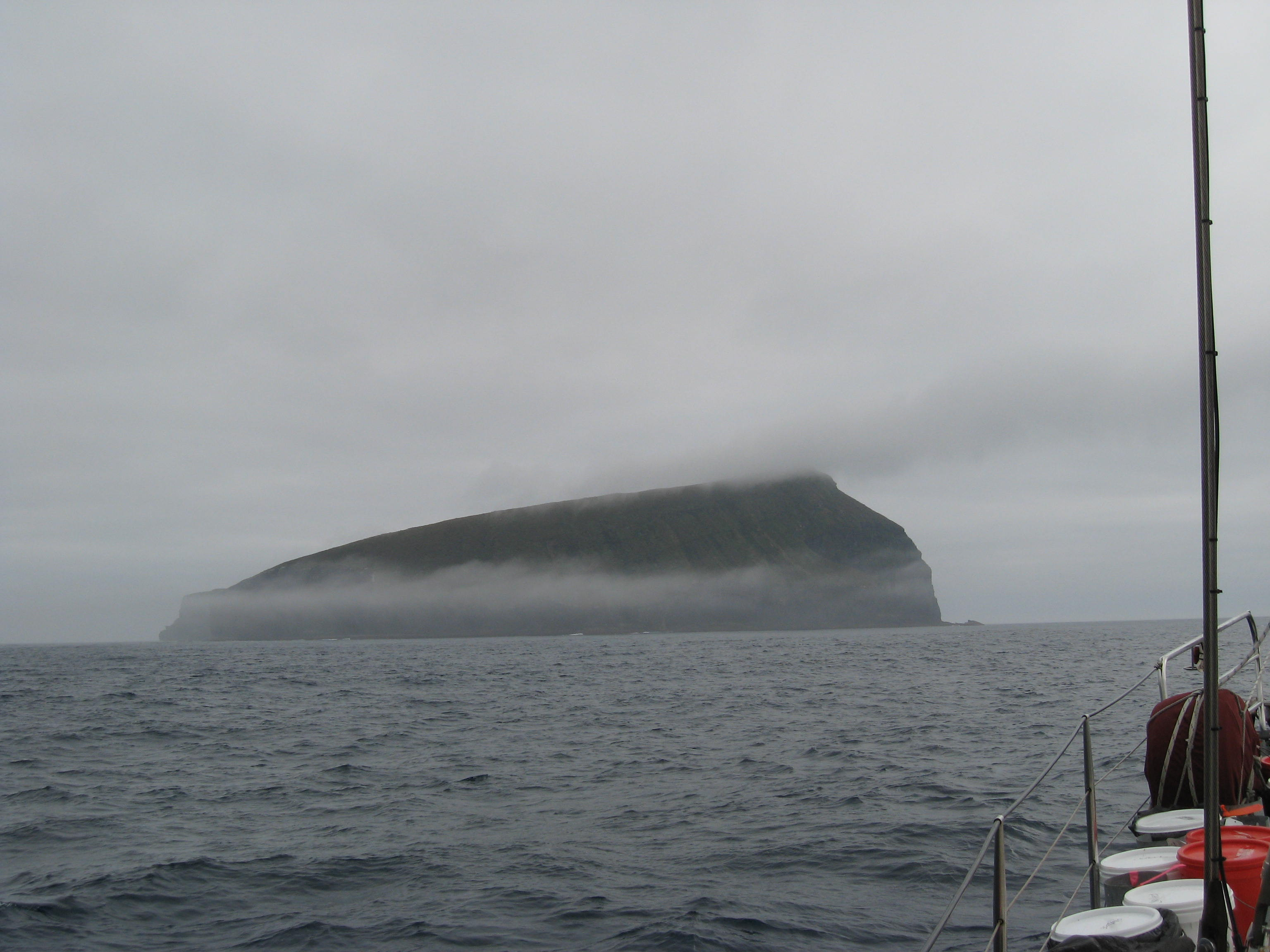 Bollons Island, viewed from near Antipodes Island, New Zealand